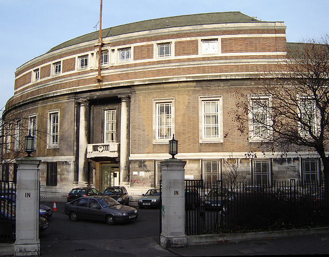 Town Hall west portico showing residue of wartime camouflage markings, Stoke Newington, Hackney, London. 24 January 2006. Photographer: Fin Fahey.